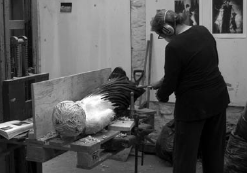 Ana Maria Pacheco in the process of creating one of her polychrome sculpture pieces.